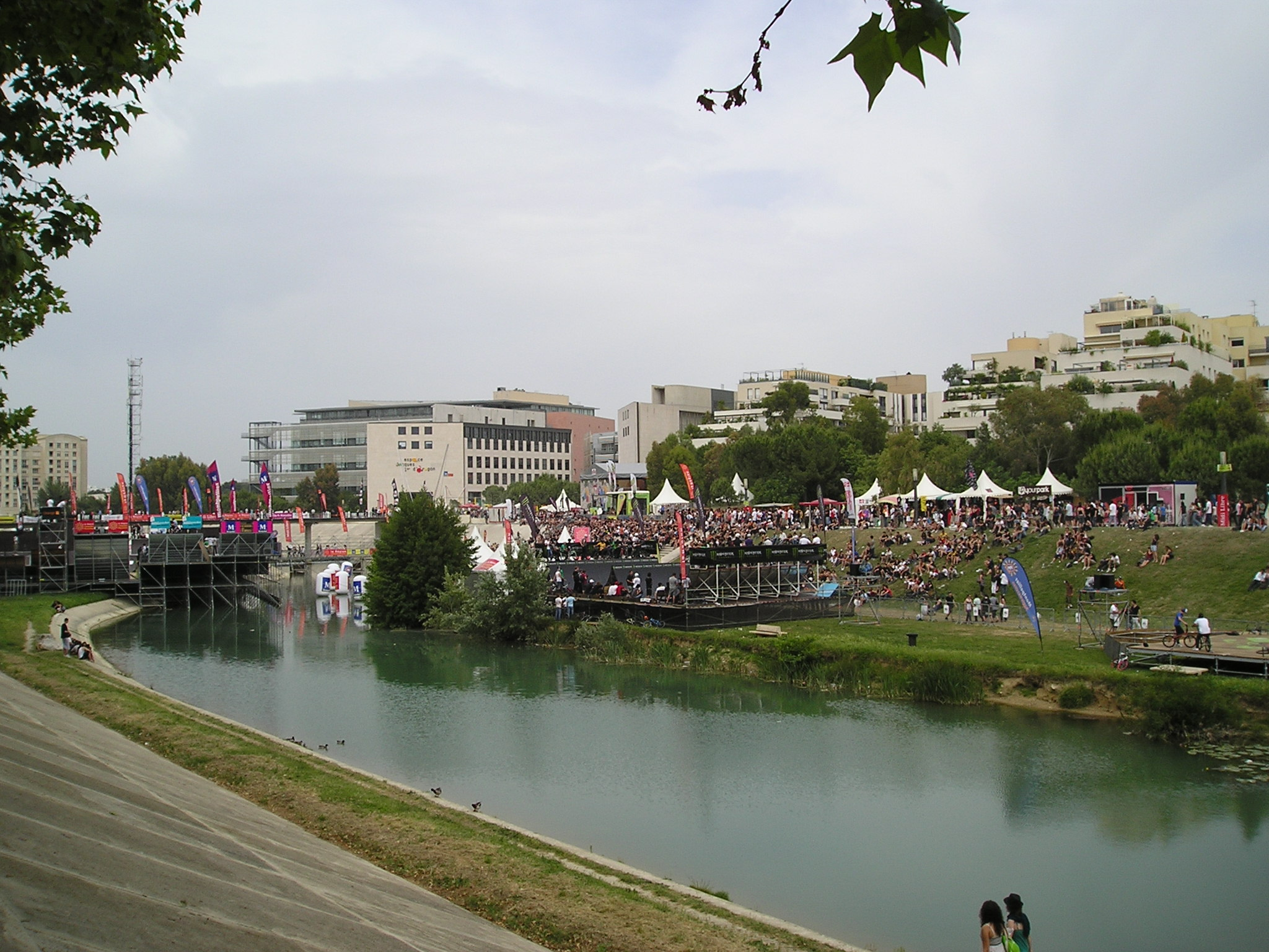 Montpellier, FISE 2009: the BMX space and the village on the left side of the Lez River, near the Richter areas and universitarian buildings.